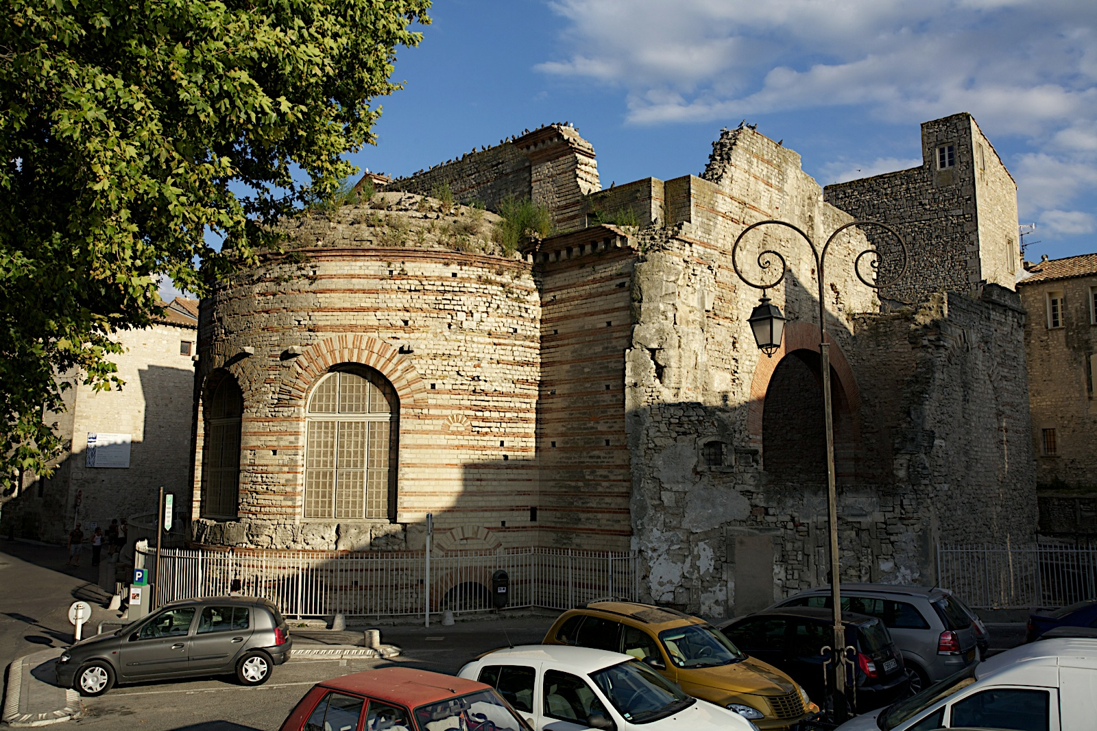 Roman baths, Arles